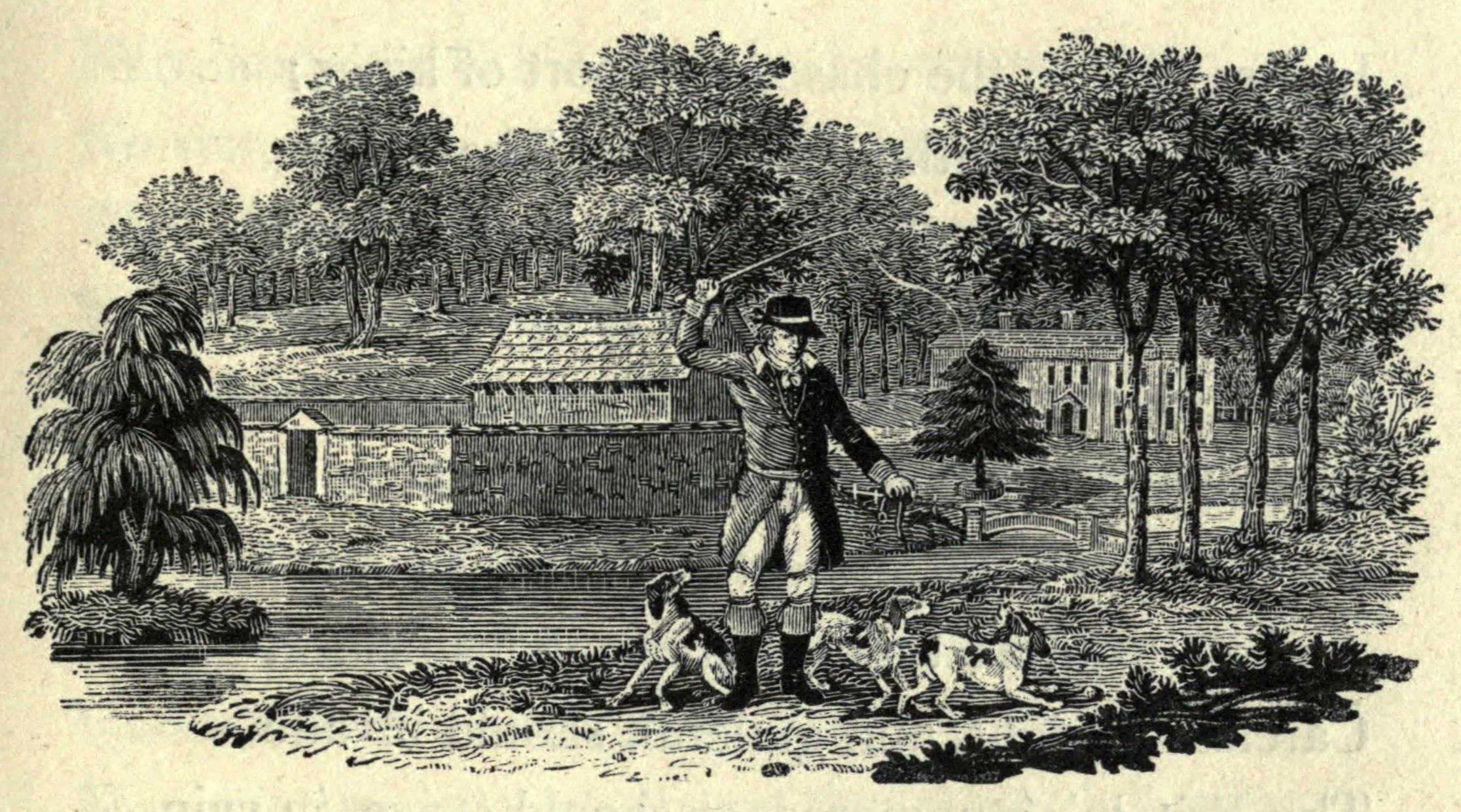 Thomas Bewick's engraving from "Chace" by William Somervile, republished in 1802.